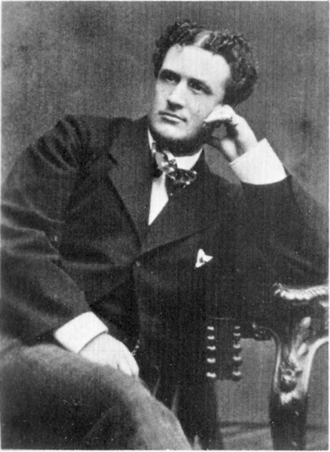 Swedish theatre actor Viktor Hartman. Scanned from the book Victor Sjöström by Bengt Forslund (1980).